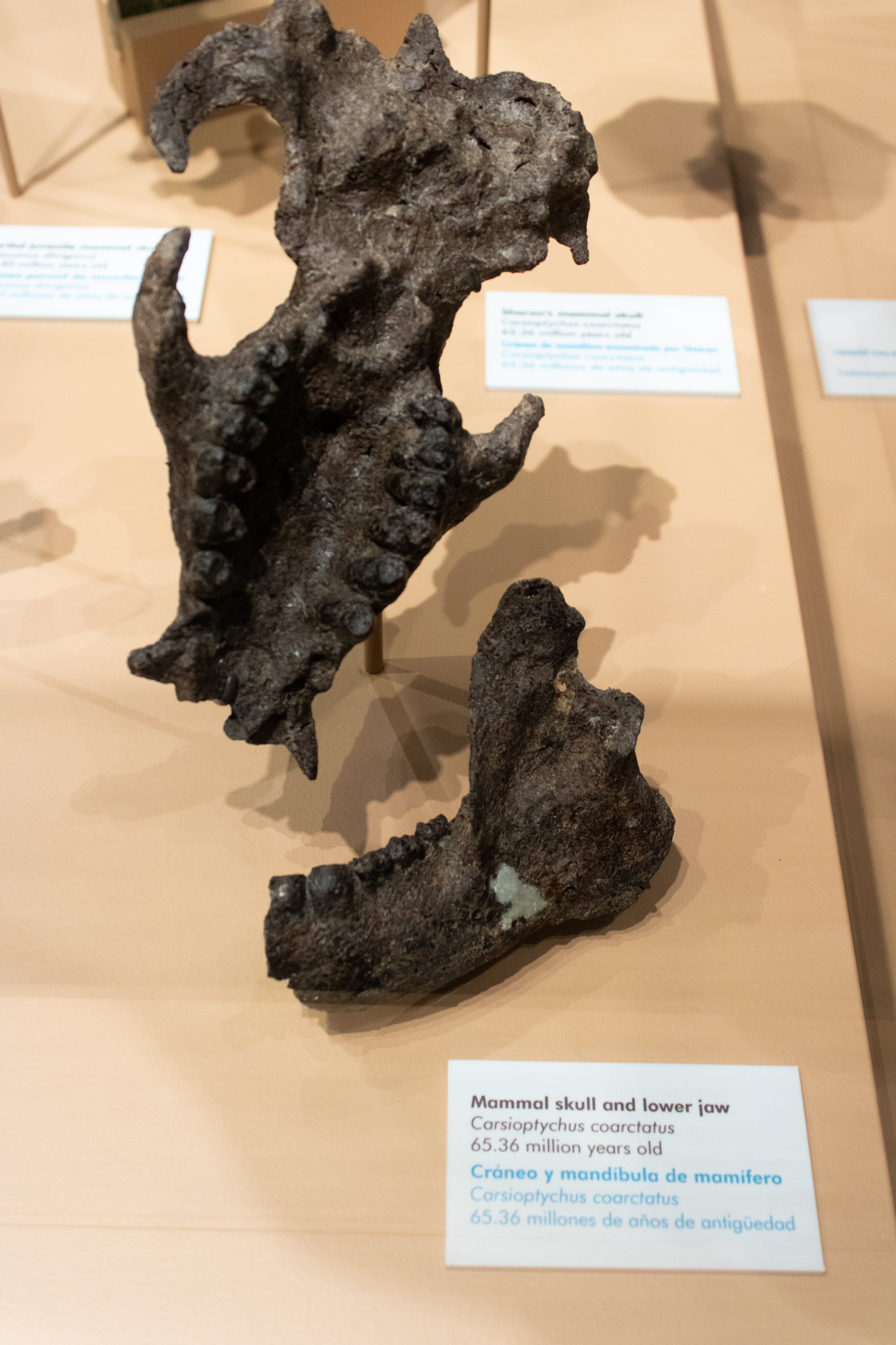 A new exhibit of mammal fossils, and other kinds, found from above the K-T Boundary at the Denver Museum of Nature and Science. Denver, Colorado.